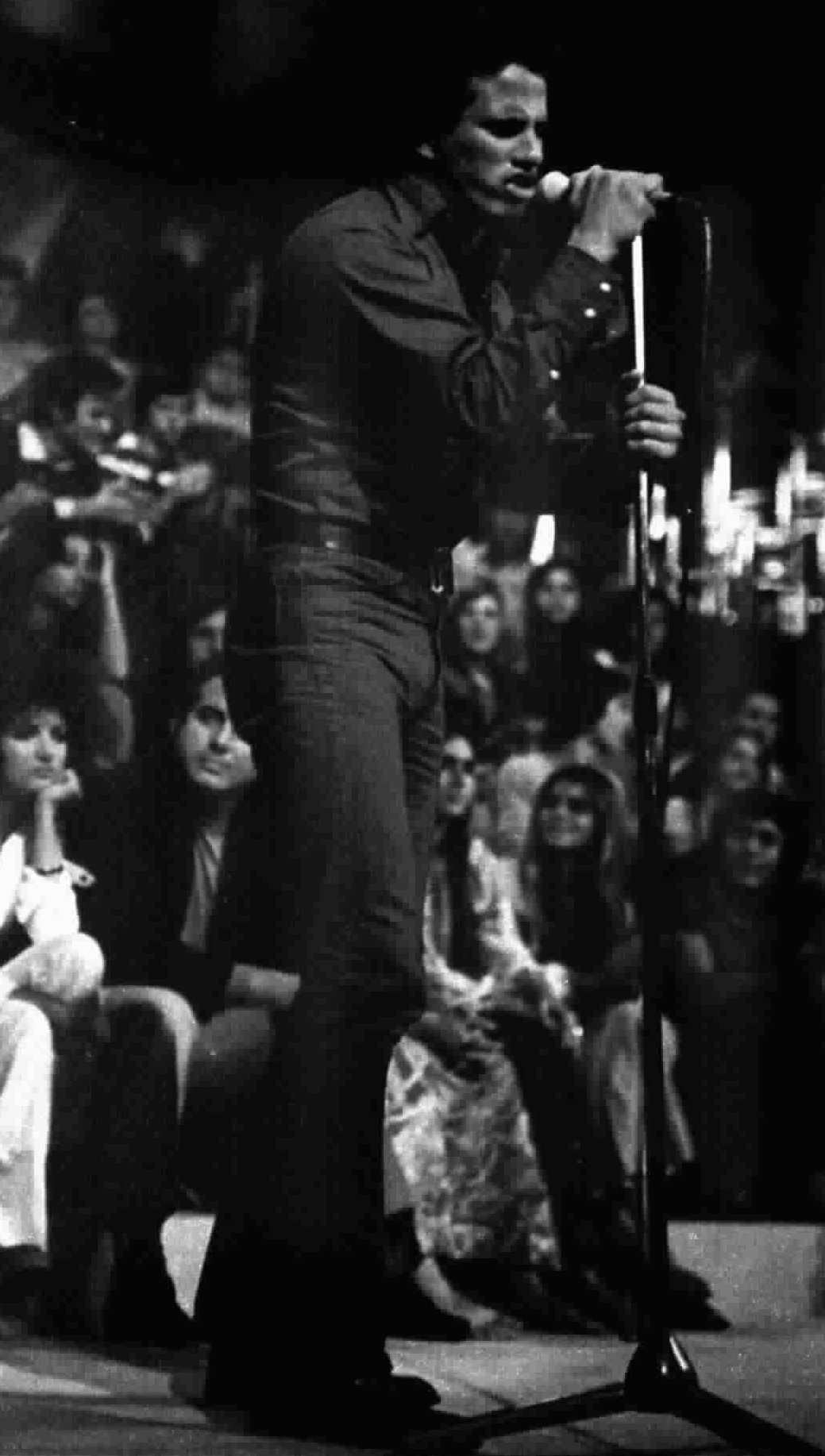 Italian singer/actor Adriano Pappalardo, guest of the Italian show Tutto è pop, Turin, 1972